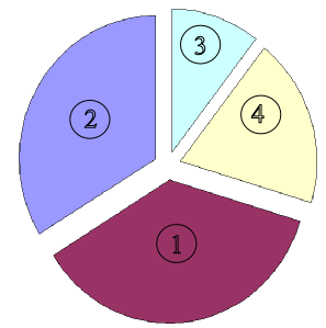 Bulk carriers by deadweight tonnage. Blue handysize 34% Purple handymax 37% Beige panamax 19% Turquoise capesize 10%.